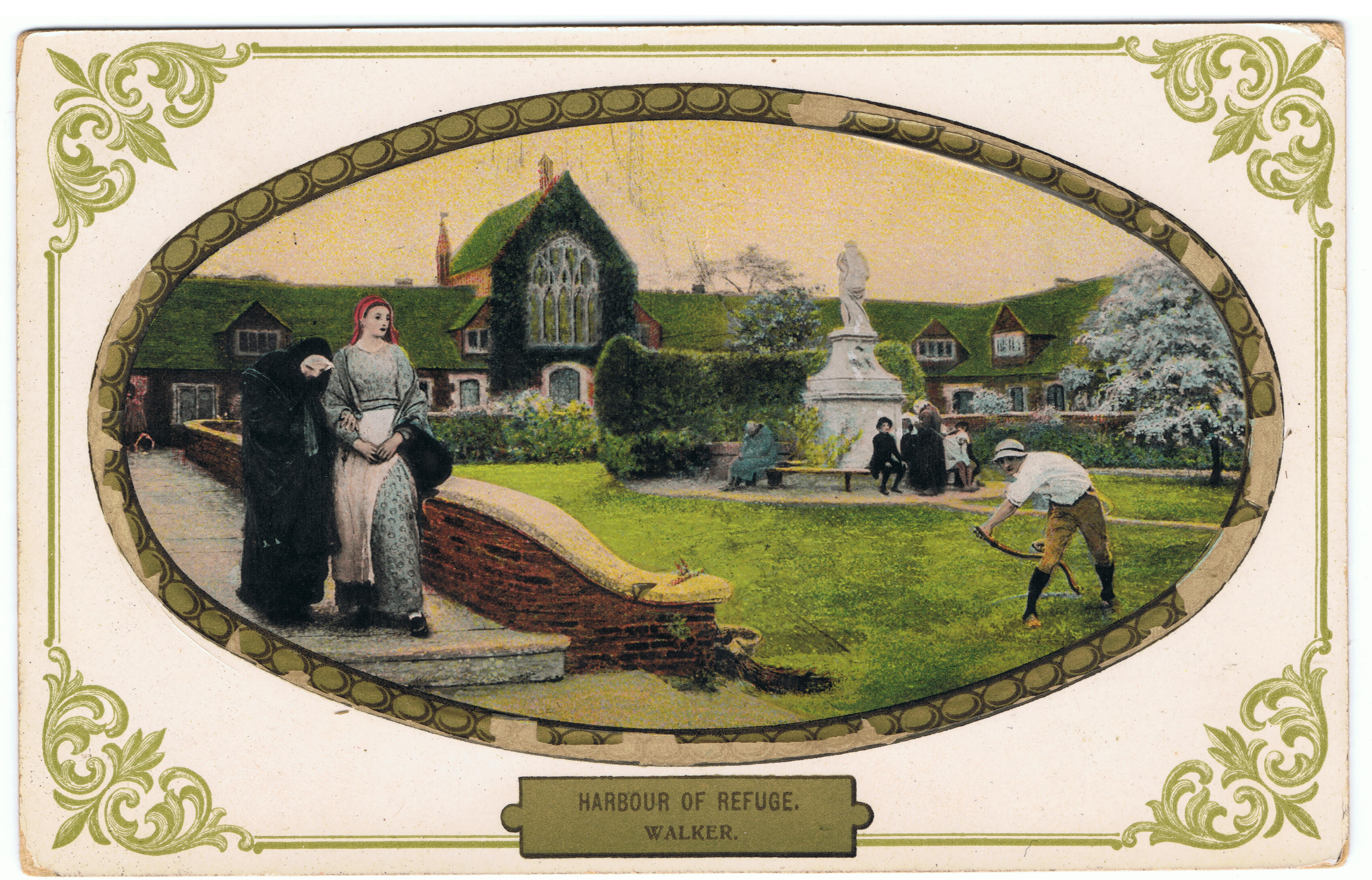 Scan (by me, R. de Salis, Rodolph (talk) 23:18, 11 January 2015 (UTC)) of Frederick Walker, A.R.A., Harbour of Refuge, 1872, postcard sent August 1908, from Dunoon to Rutherglen, Glasgow, Scotland.